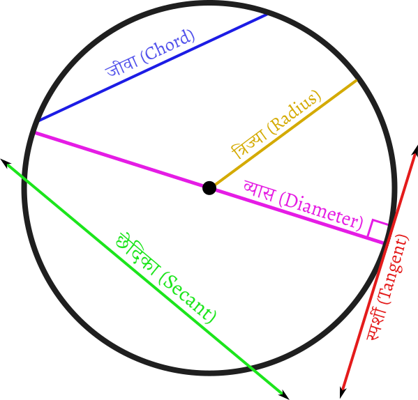 CIRCLE LINES HI